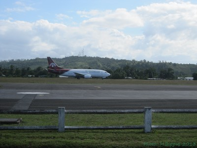 Sambava airport & Air Madagascar 737-300 5R-MFI